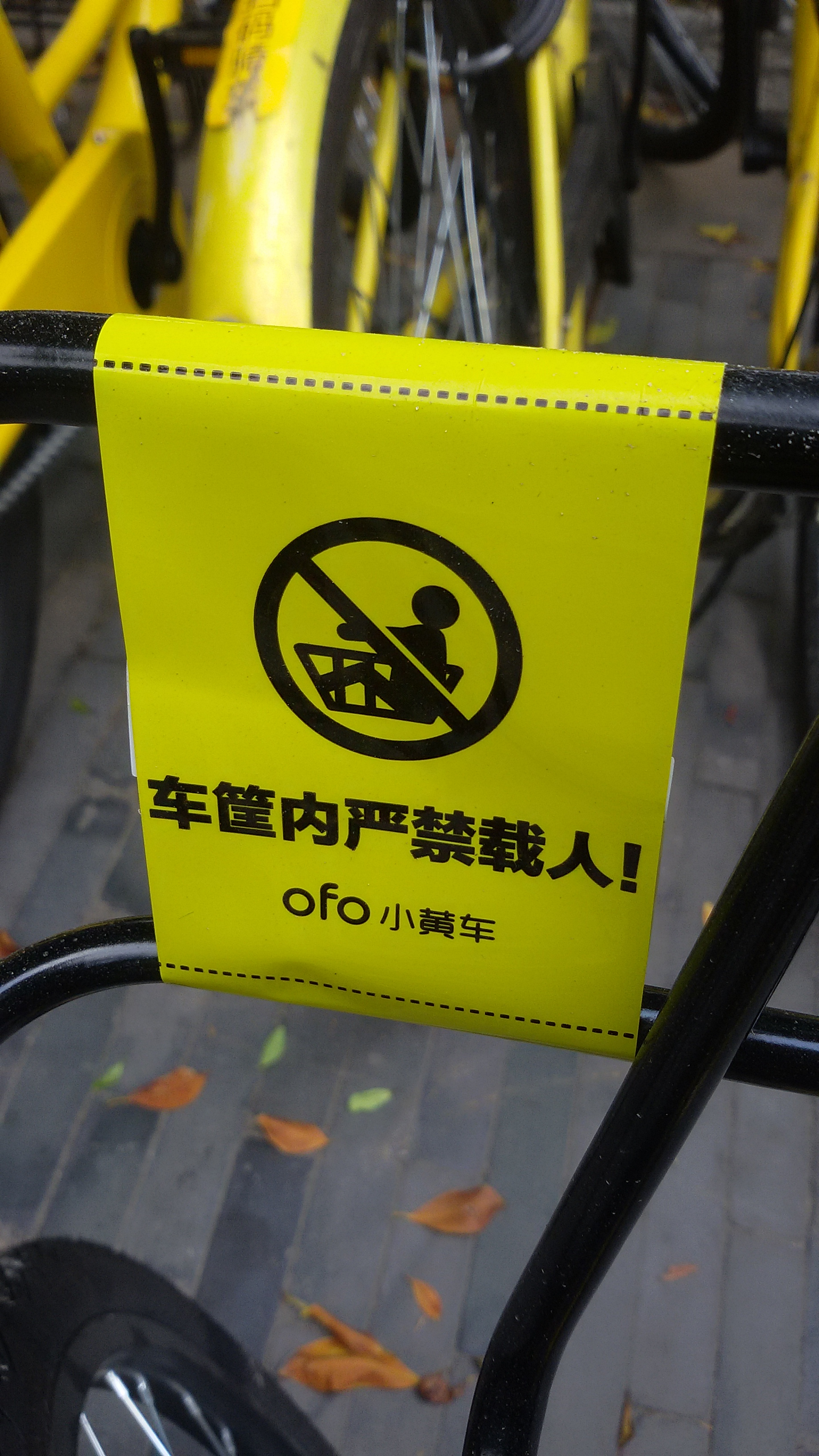 WARNING about "No sitting for people in basket" in the front of ofo bicycle. 粵語: ofo共享單車嘅前邊車籃有寫住「車籃唔畀搭人」嘅警告標示.